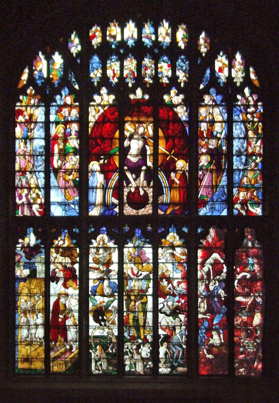 Great West Window, St Mary's Church, Fairford, Gloucestershire. Last Judgment Church of Saint Mary Native nameChurch of Saint MaryLocationFairford, Gloucestershire, EnglandCoordinates51° 42′ 33″ N, 1° 46′ 55″ W Authority control : Q17525521